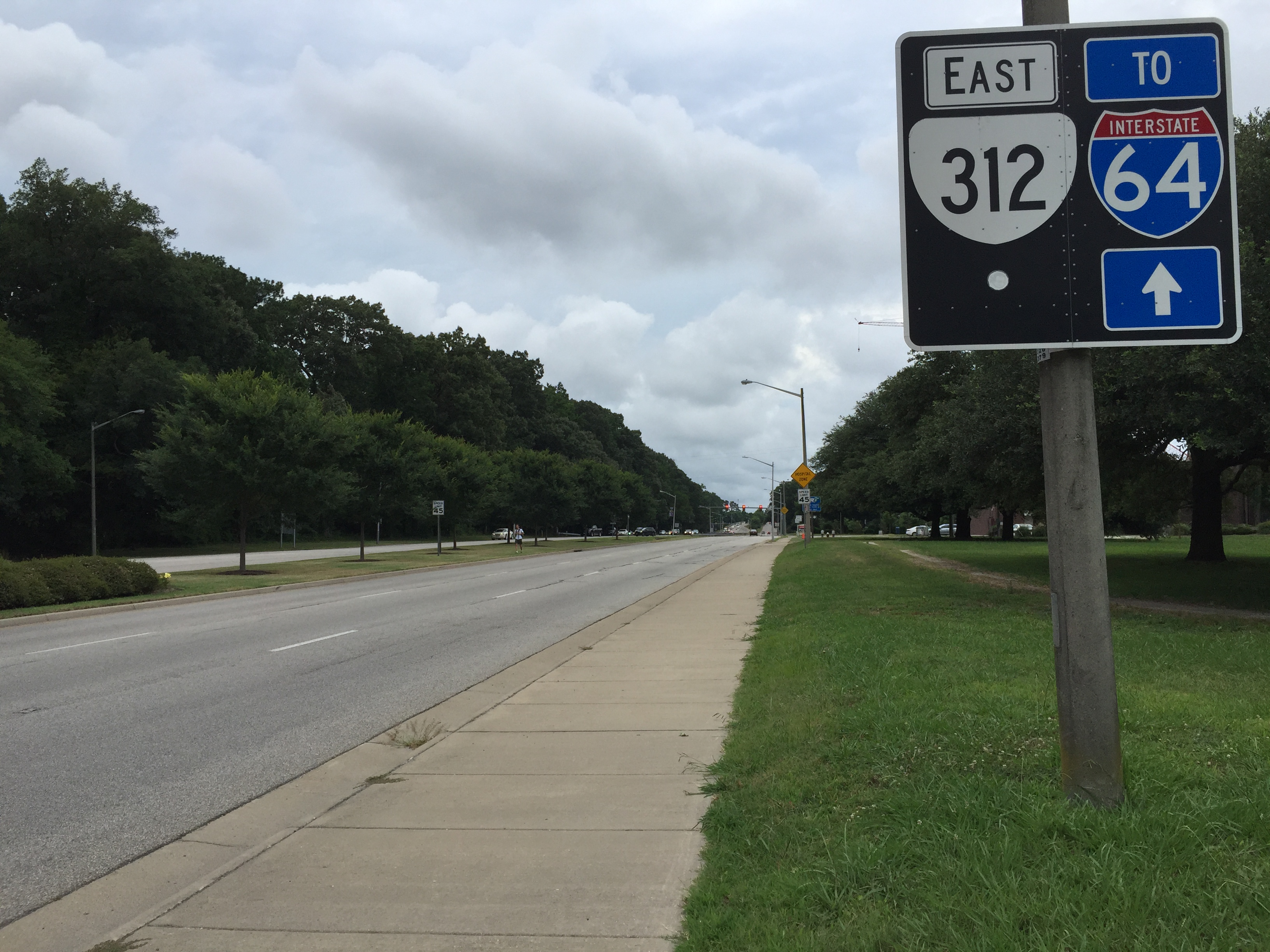 View east along Virginia State Route 312 (J Clyde Morris Boulevard) at U.S. Route 60 (Warwick Boulevard) in Newport News, Virginia